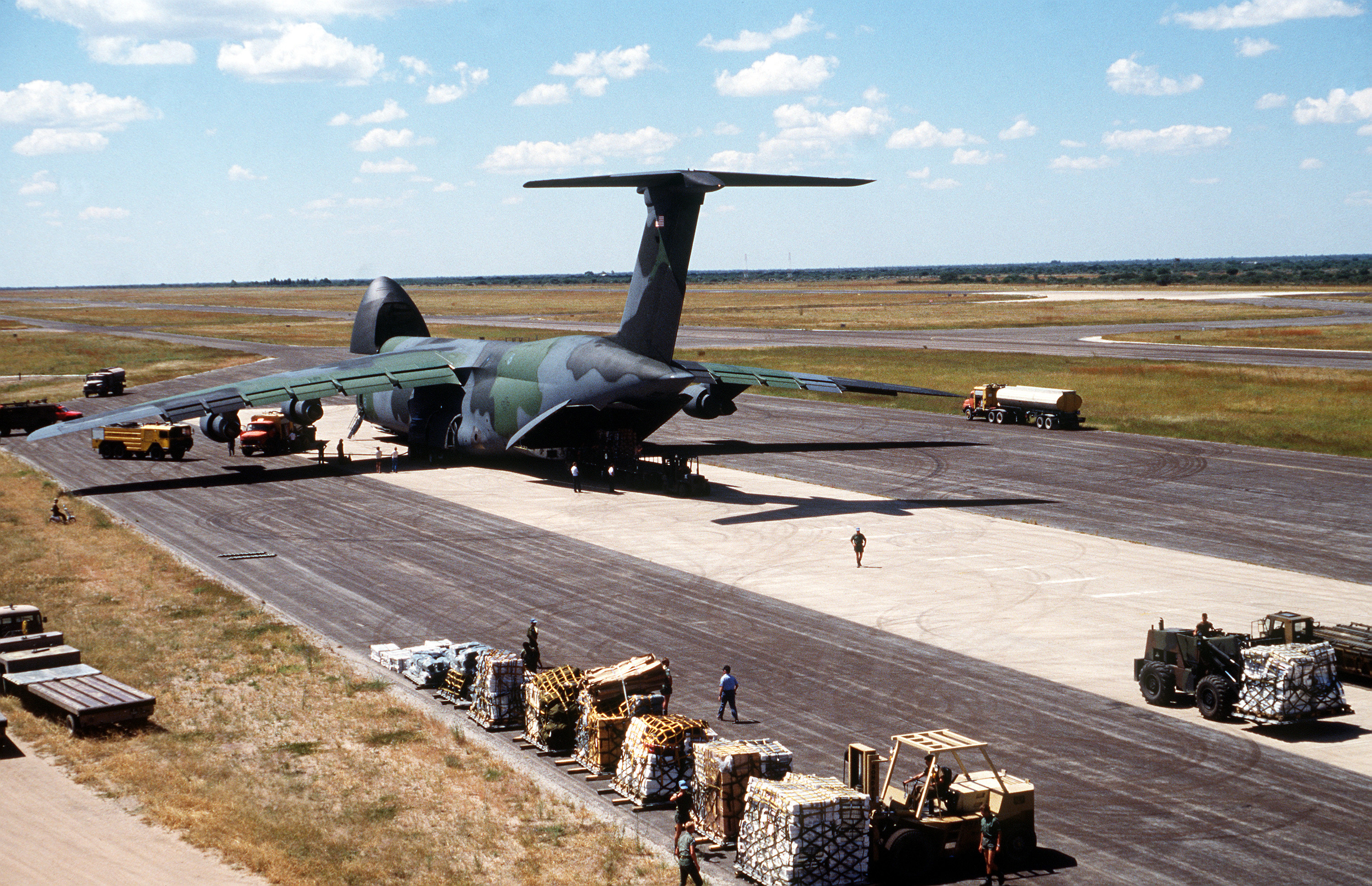 Pallets of supplies are offloaded from a Military Airlift Command C-5B Galaxy aircraft at Grootfontein Logistics Base. The Galaxy is also transporting Finnish United Nations troops which will act as a peacekeeping force in Namibia. Camera Operator: MSGT BILL THOMPSON Date Shot: 8 Apr 1989